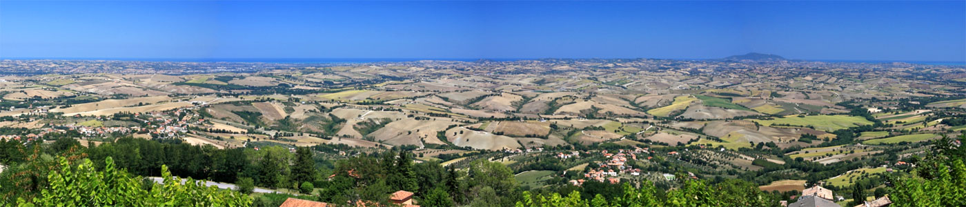 Panorama from Cingoli, Macerata, Italy